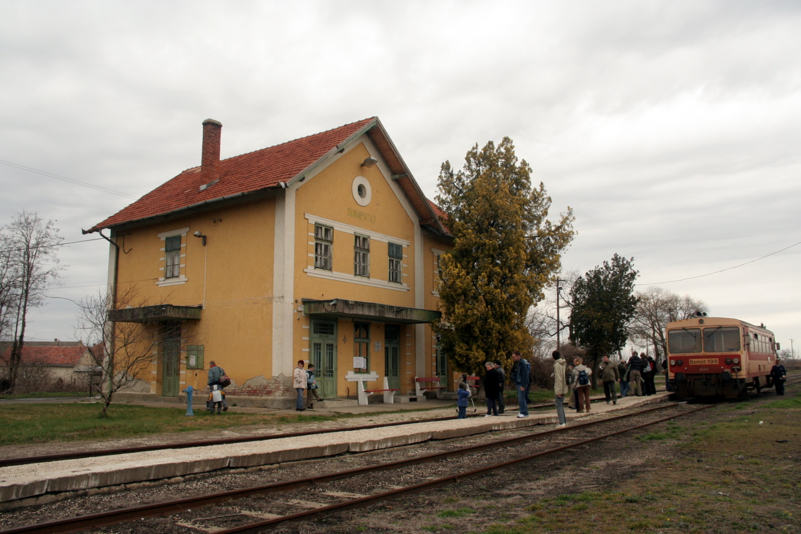 Dunapataj railway station, ending point of the Kunszentmiklós-Tass–Dunapataj railway line. One of the last trains arrived from Kunszentmiklós-Tass, the next day this railway were finaly closed.